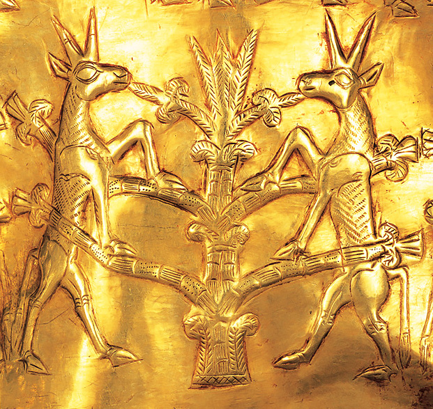 From: Taheri, Sadreddin (2013), Plant of life, in Ancient Iran, Mesopotamia & Egypt, Tehran: Honarhay-e Ziba Journal, Vol. 18, No. 2 p. 7.